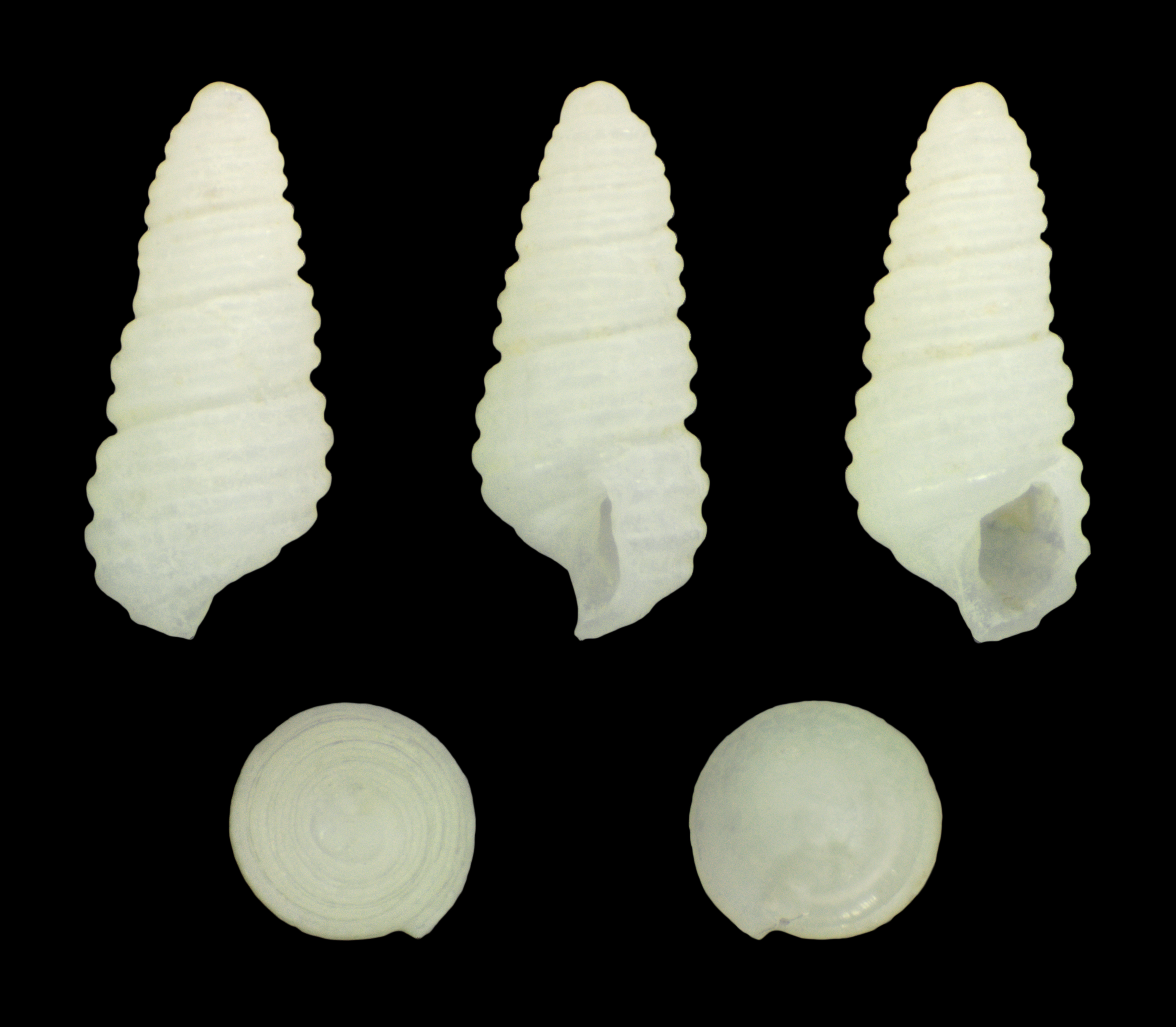 Cingulina laticingula (Dall & Bartsch, 1906), juvenile; length 0.17 cm; Originating from Pointe aux Canonniers, Mauritius; Shell of own collection, therefore not geocoded.